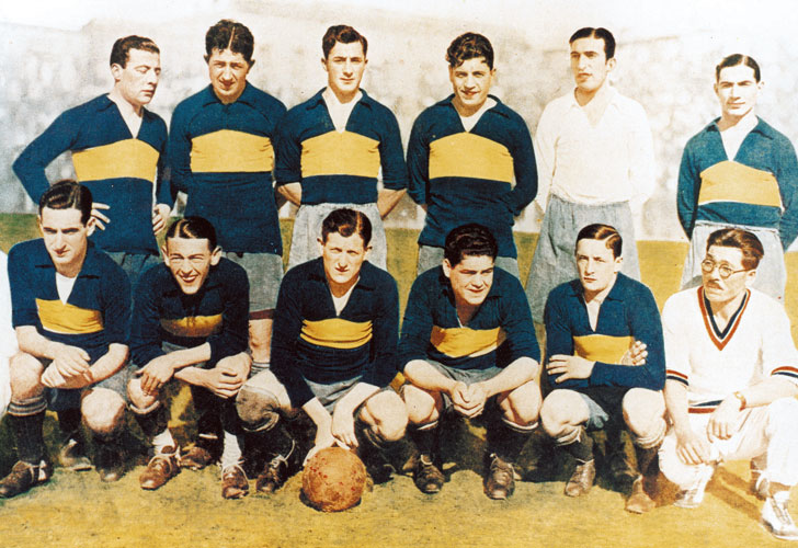 The Boca Juniors team that won in 1930 the last amateur championship for the club. From 1931 the Argentine football would be professional. (stand): Médici, Bidoglio, Pedemonte, Mutis, Mena, Arico Suárez. (seated): Mario Evaristo, Kuko, Tarasconi, Cherro, Alberino